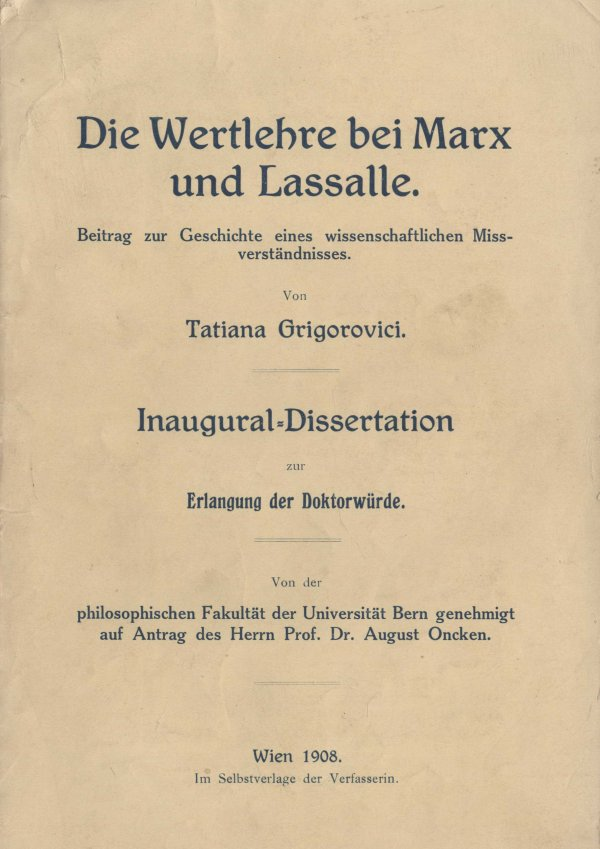 Die Wertlehre bei Marx und Lassalle, doctoral dissertation of Tatiana Grigorovici (1877-1952), Austrian-Romanian sociologist